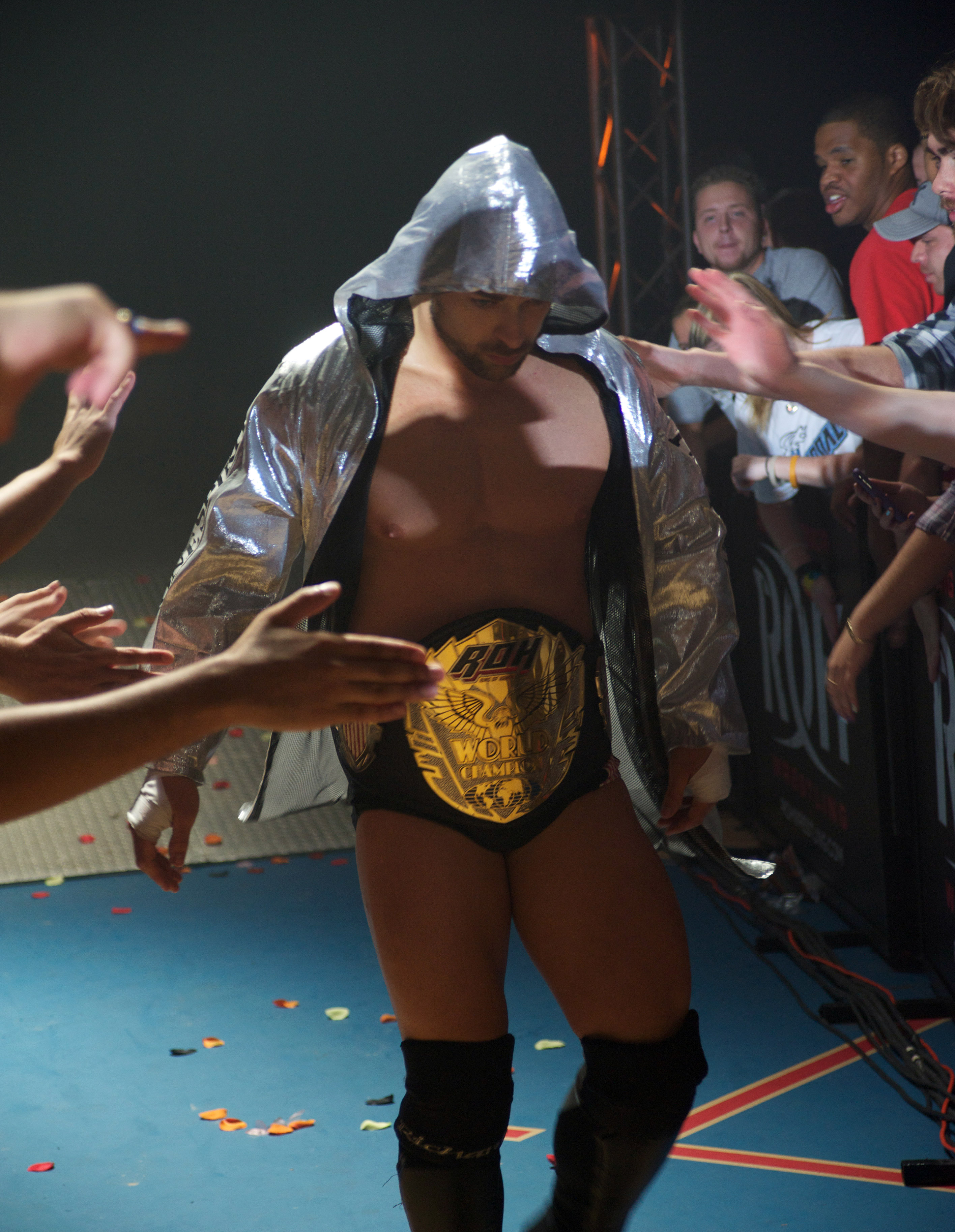 Davey Richards as the ROH World Champion at a Ring of Honor show in 2011.